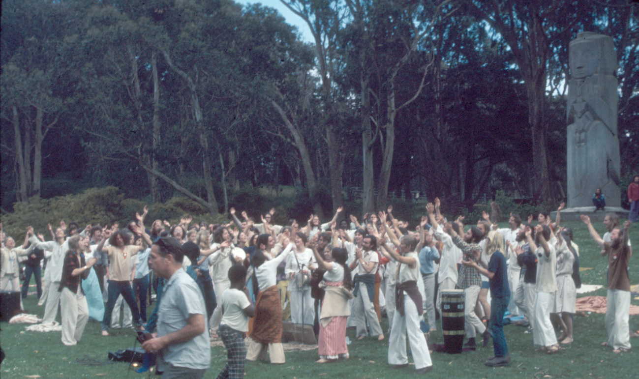 the picture is free for everyone to use.